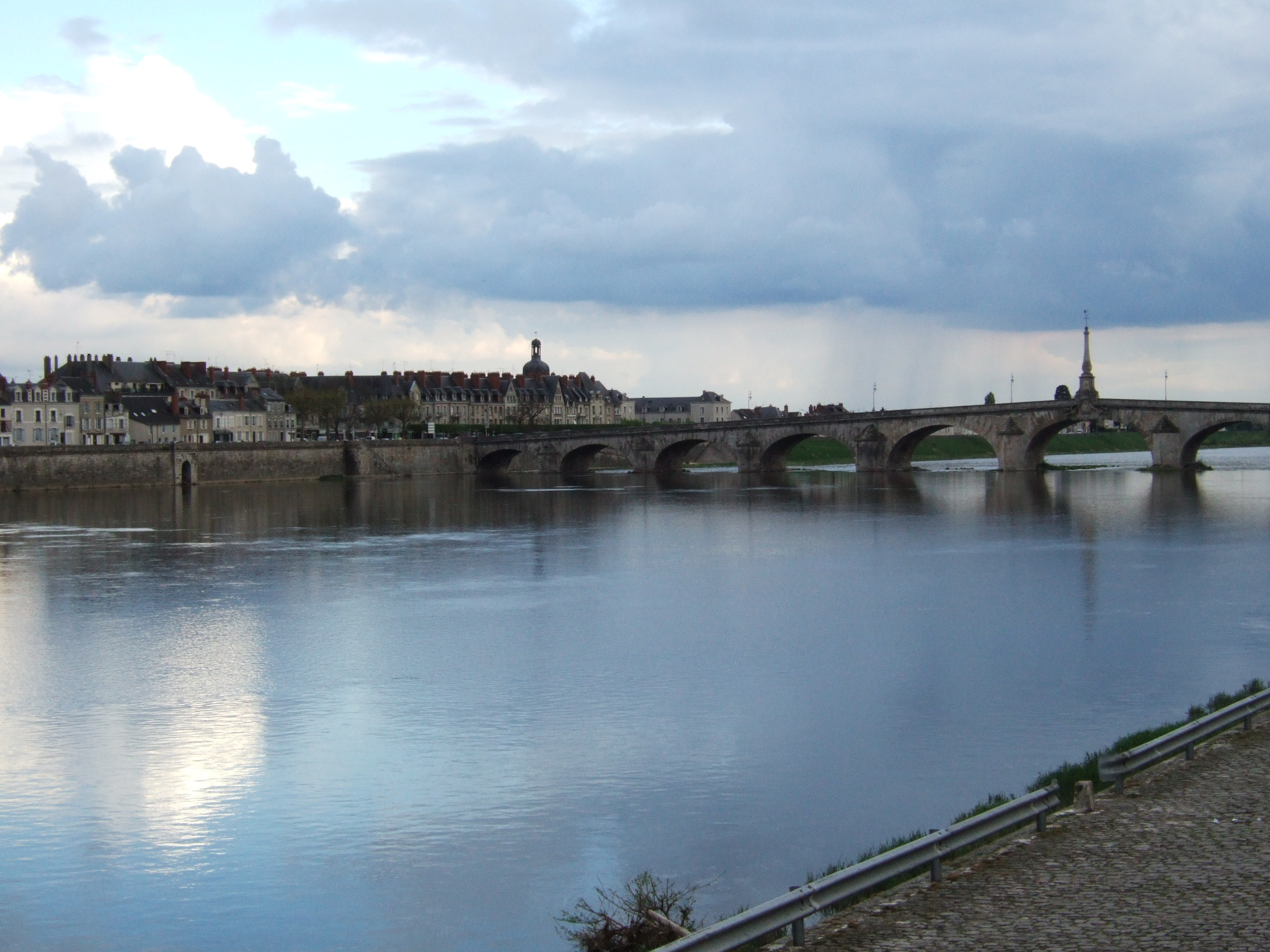 The Loire River (the longest river in Europe and the widest) as it flows through Blois. Taken from the north side (with the castle on it).